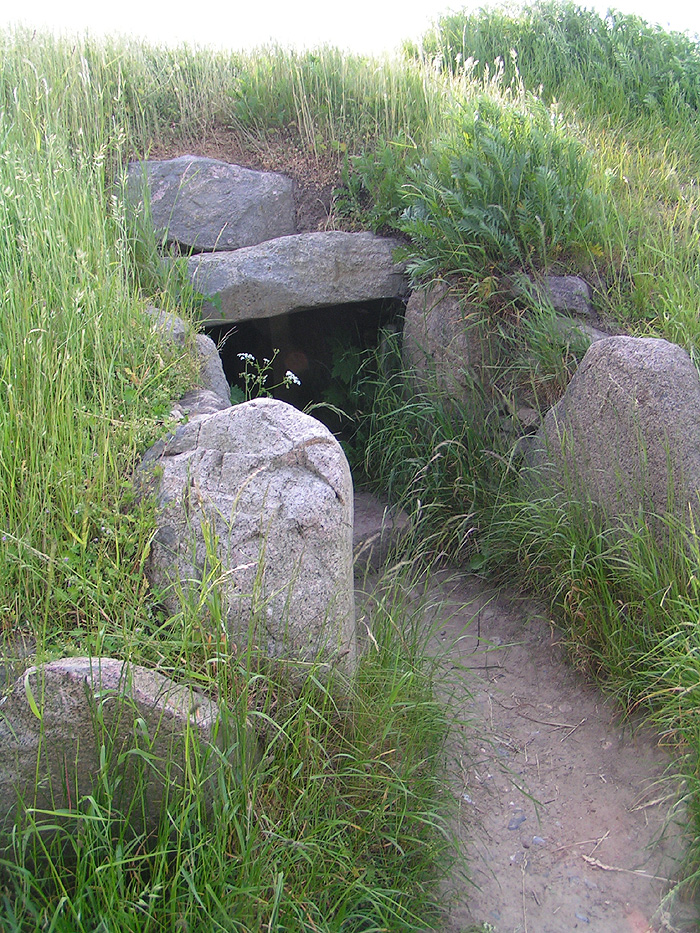 Entrance to Passage grave at Hulbjerg, Langeland, Denmark